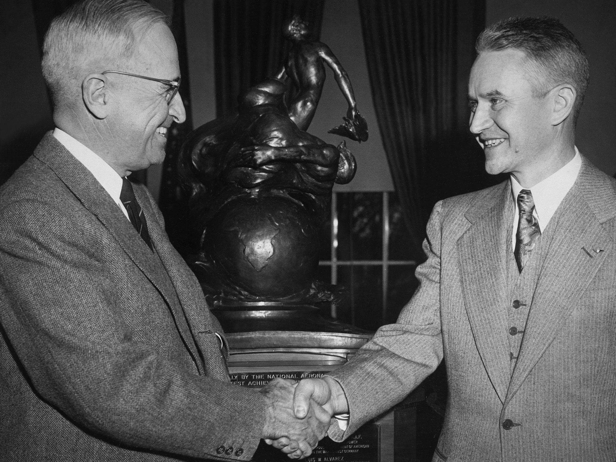 Lew Rodert accepting the Collier Trophy from President Harry S Truman in December 1947. (NASA Photo NACA C-20298)